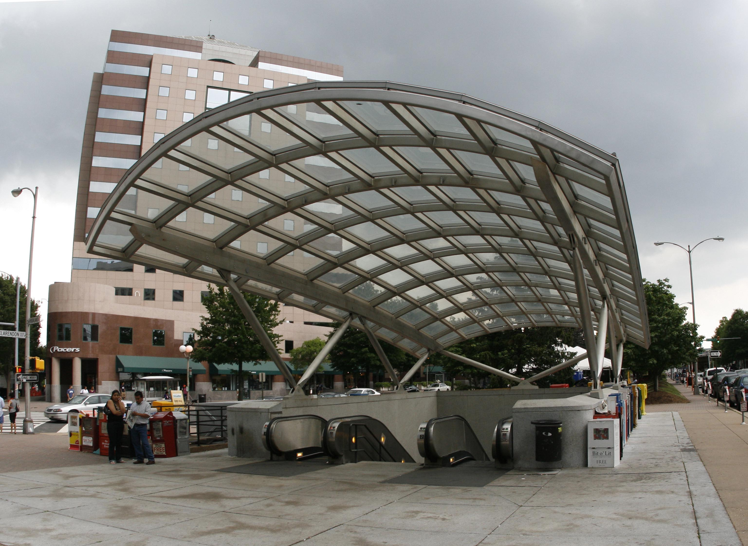 Entrance to the Clarendon Metro staion located in Arlington County, Virginia.